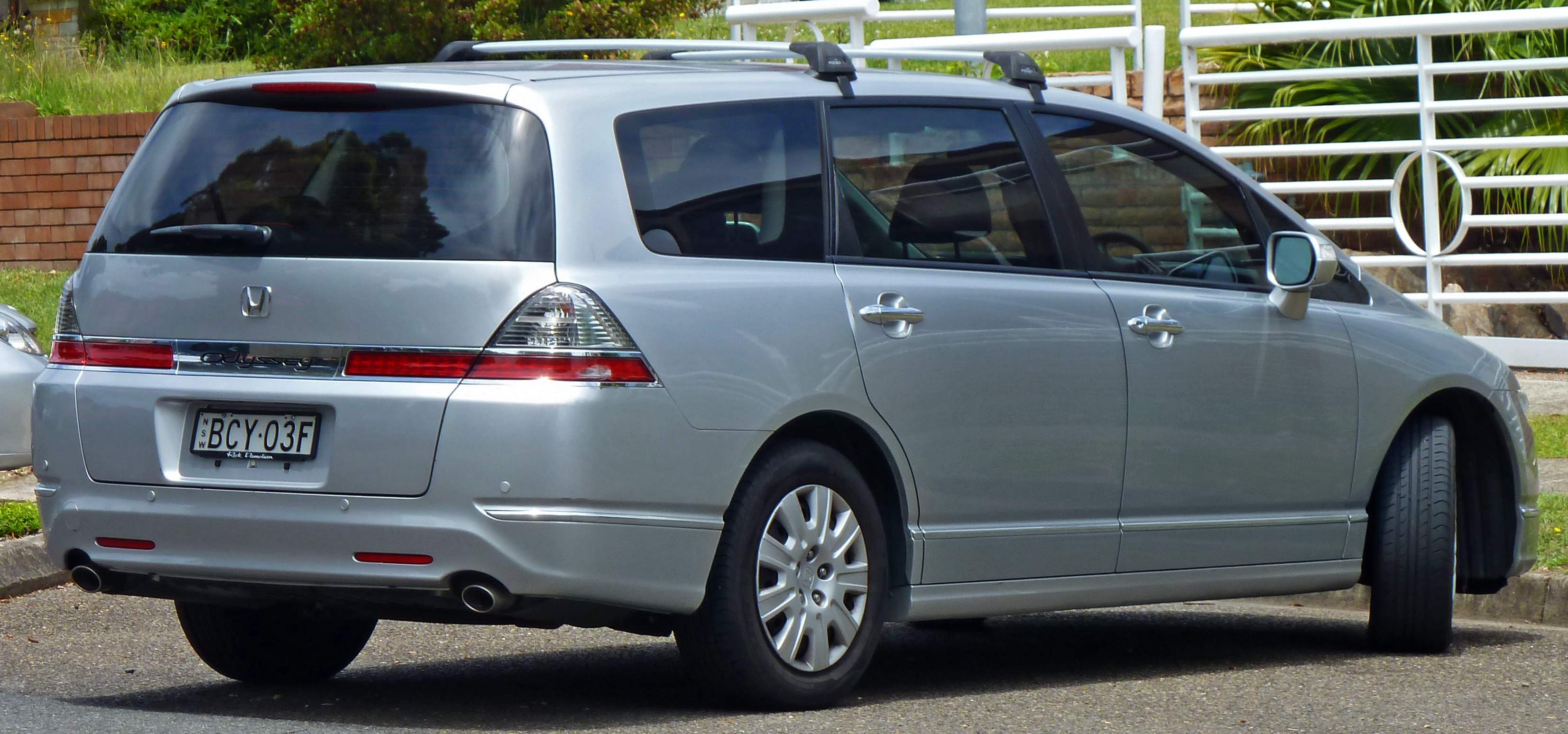 2006–2009 Honda Odyssey van. Photographed in Sans Souci, New South Wales, Australia.